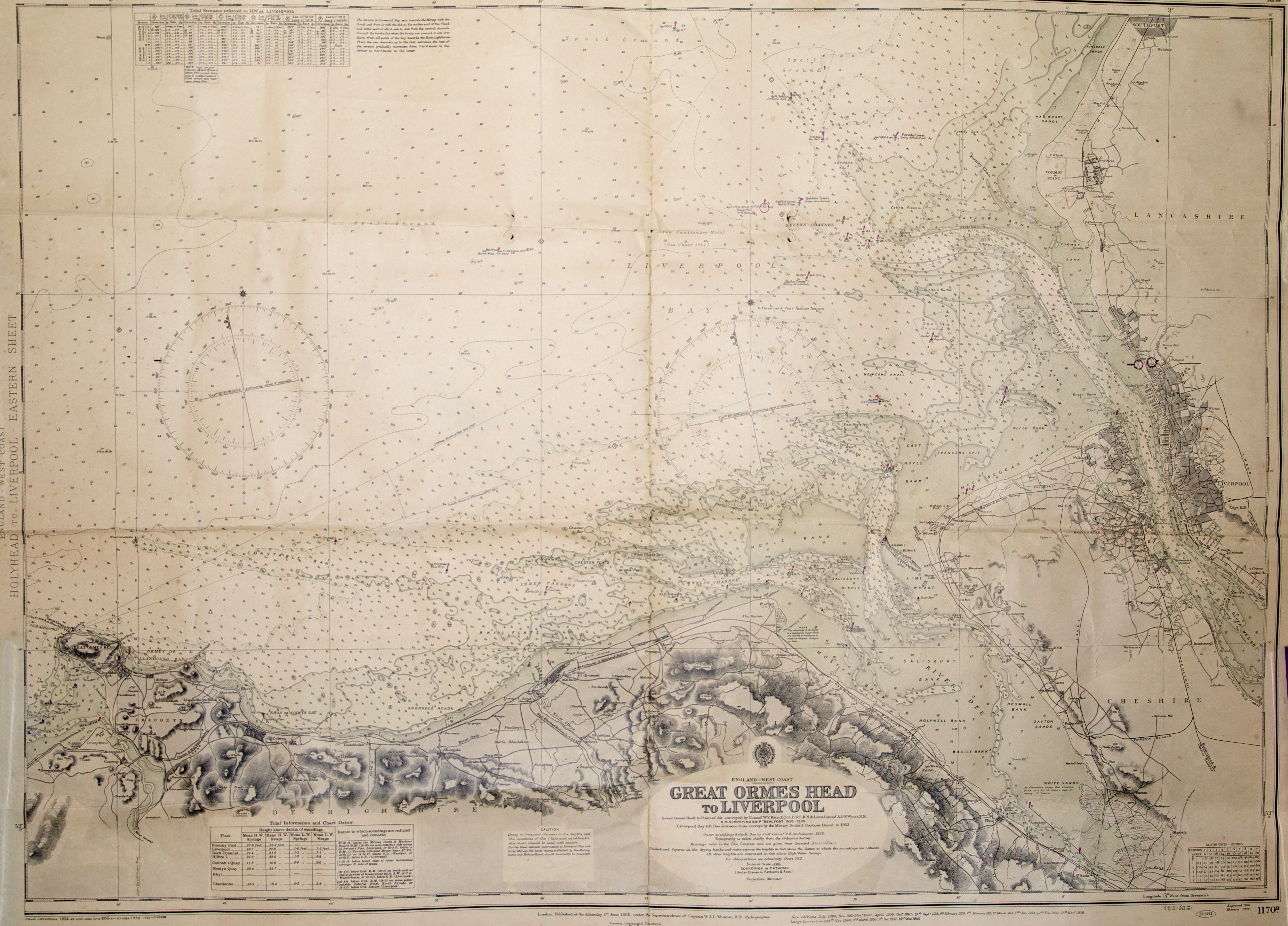 A navigation chart for the coastal waters of Liverpool Bay from Great Ormes Head, Wales to Liverpool, England. First published in 1886, republished with revisions up to 1953.